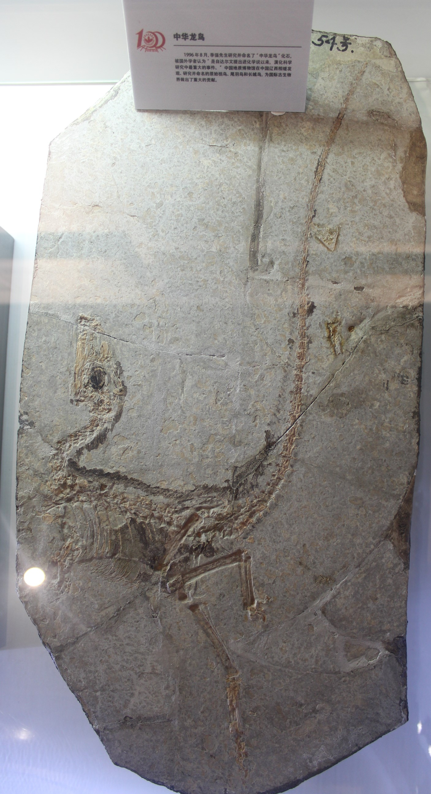 Counterslab of the holotype of Sinosauropteryx prima on display at the Geological Museum of China.